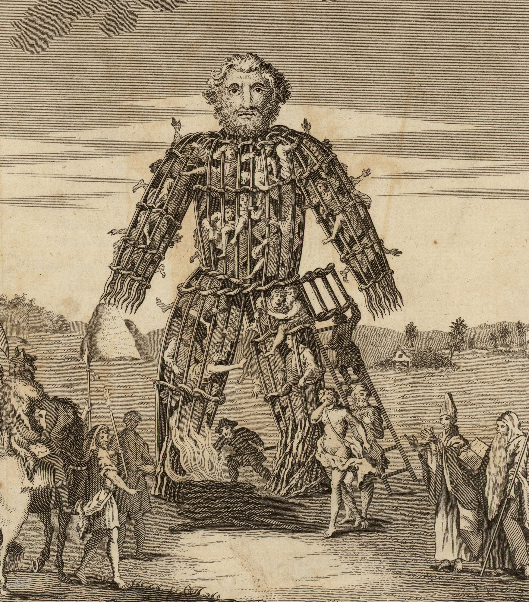 An image from a set of 8 extra-illustrated volumes of A tour in Wales by Thomas Pennant (1726-1798) that chronicle the three journeys he made through Wales between 1773 and 1776. These volumes are unique because they were compiled for Pennant's own library at Downing. This edition was produced in 1781. The volumes include a number of original drawings by Moses Griffiths, Ingleby and other well known artists of the period. Thomas Pennant (1726-1798)